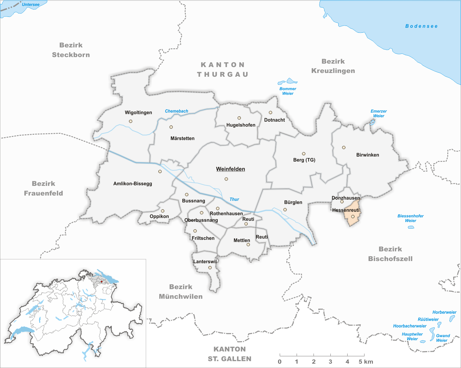 Municipality Hessenreuti